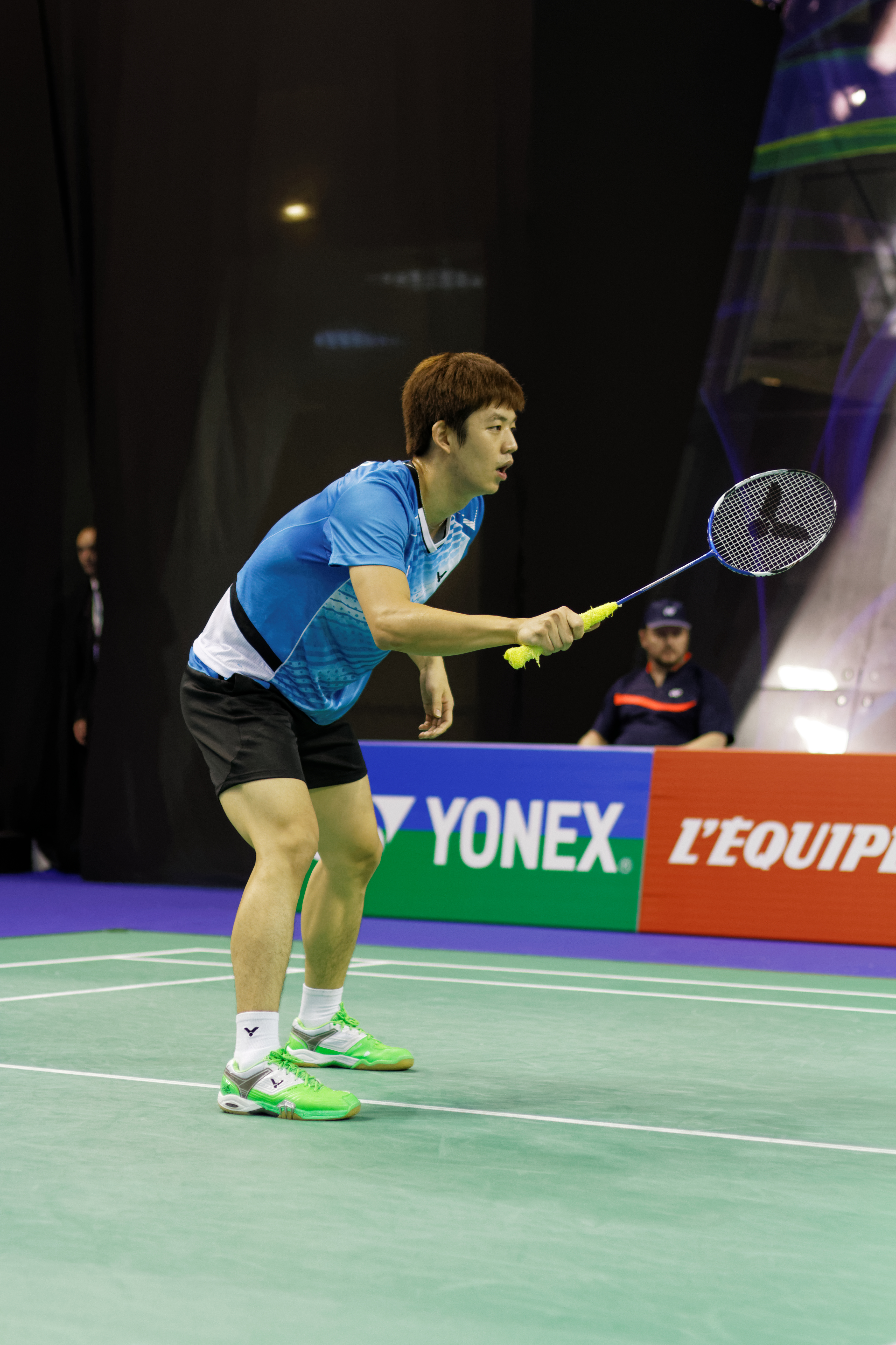 2013 French open. Men's doubles quarterfinal. Hoon Thien How and Tan Wee Kiong vs Lee Yong-dae and Yoo Yeon-seong.